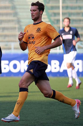 Apostolos Vellios with Everton FC